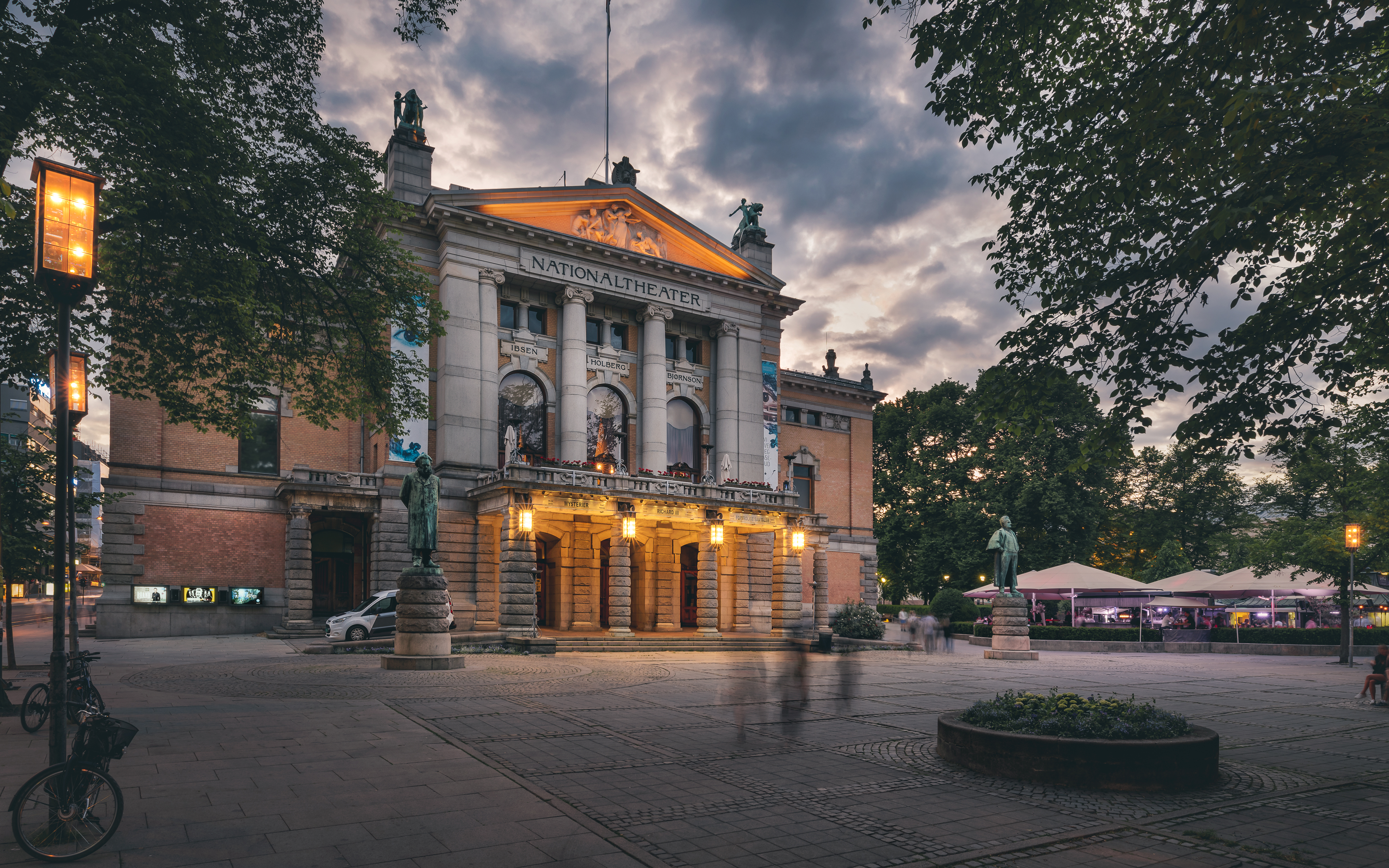 Nationaltheateret by night